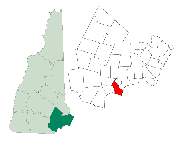 Map of a municipality in Rockingham County, New Hampshire